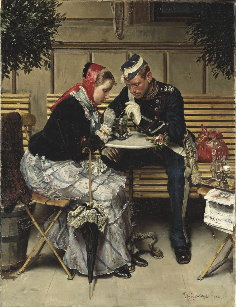 Outside the Café A Porta, Copenhagen